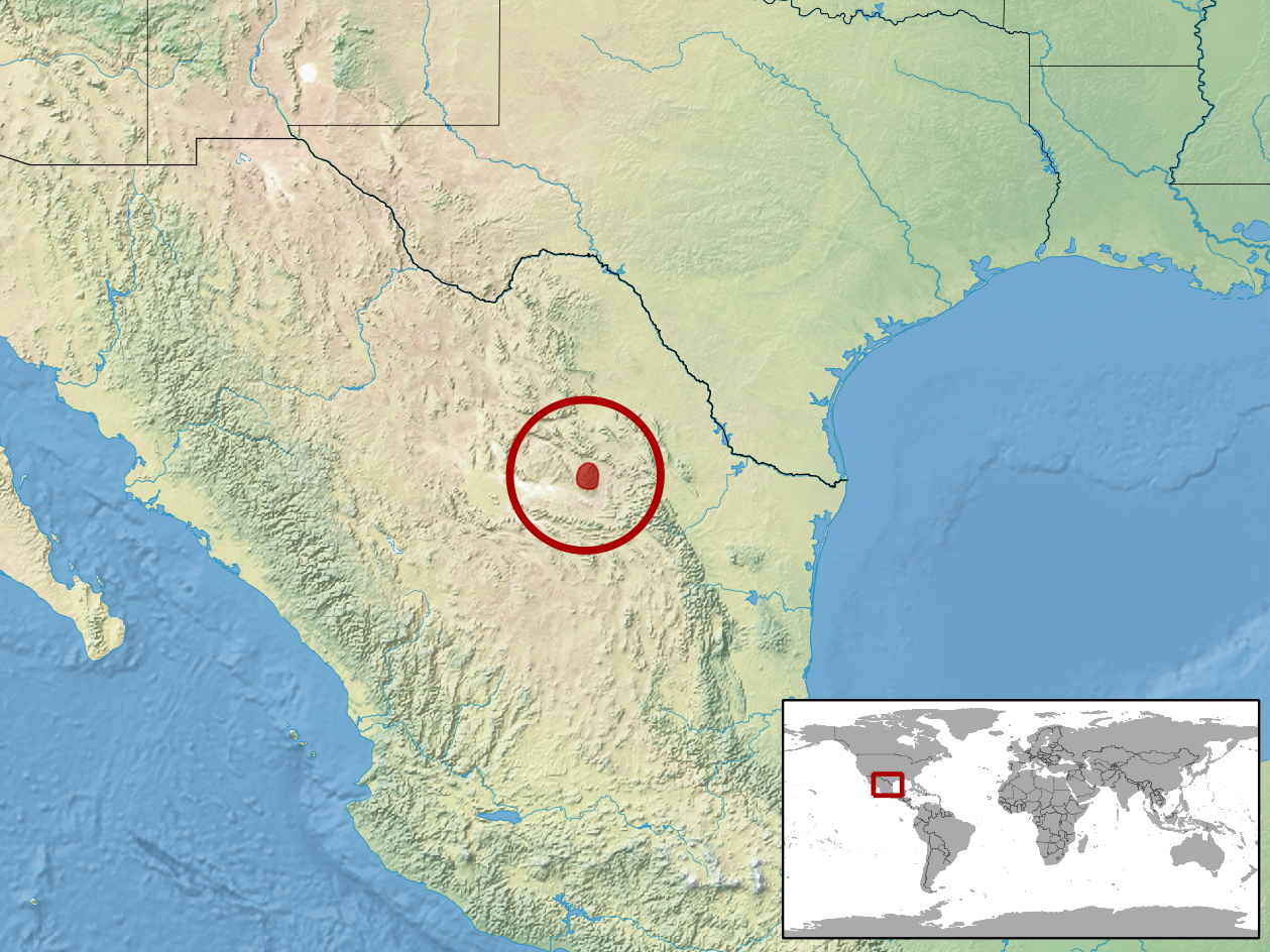 geographic distribution of Gerrhonotus lugoi (Native: Mexico)